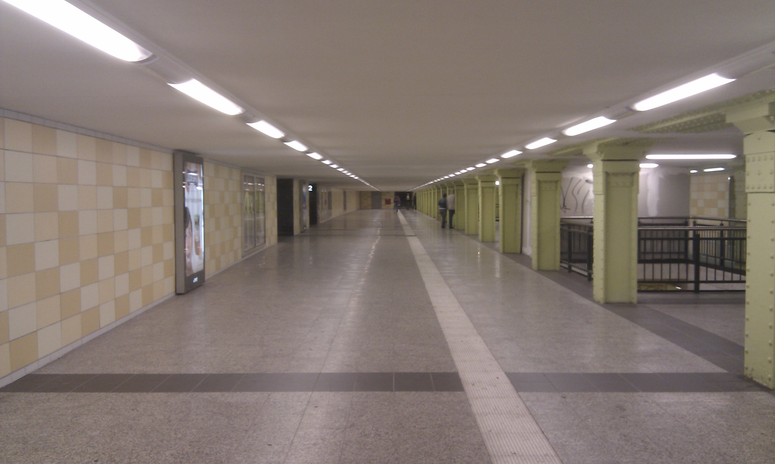 Refurbished conection tunnel to subway, Lichtenberg railway station, Berlin.